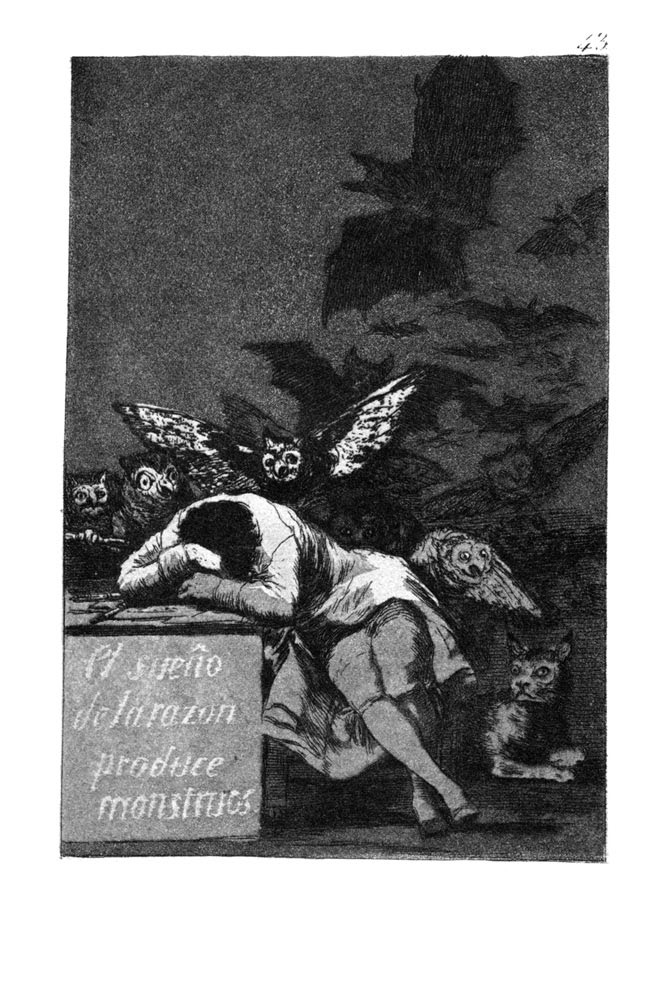 Los Caprichos is a set of 80 aquatint prints created by Francisco Goya for release in 1799.